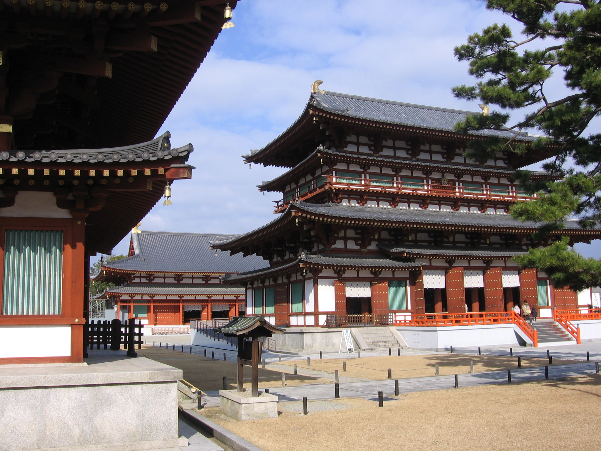 Yakushiji temple, Nara